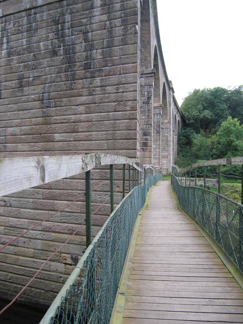 Footbridge below Roxburgh Viaduct Unusually, Roxburgh or Teviot Viaduct, across the river of the latter name, has a low-level footbridge supported on the extended cutwaters of the river piers. This probably dates from 1850 when the viaduct was completed and the St Boswells to Kelso railway over it was opened. Cyclists proceeding across the bridge too quickly may suffer a form of sea-sickness as the spans each arch up and down between their supports!